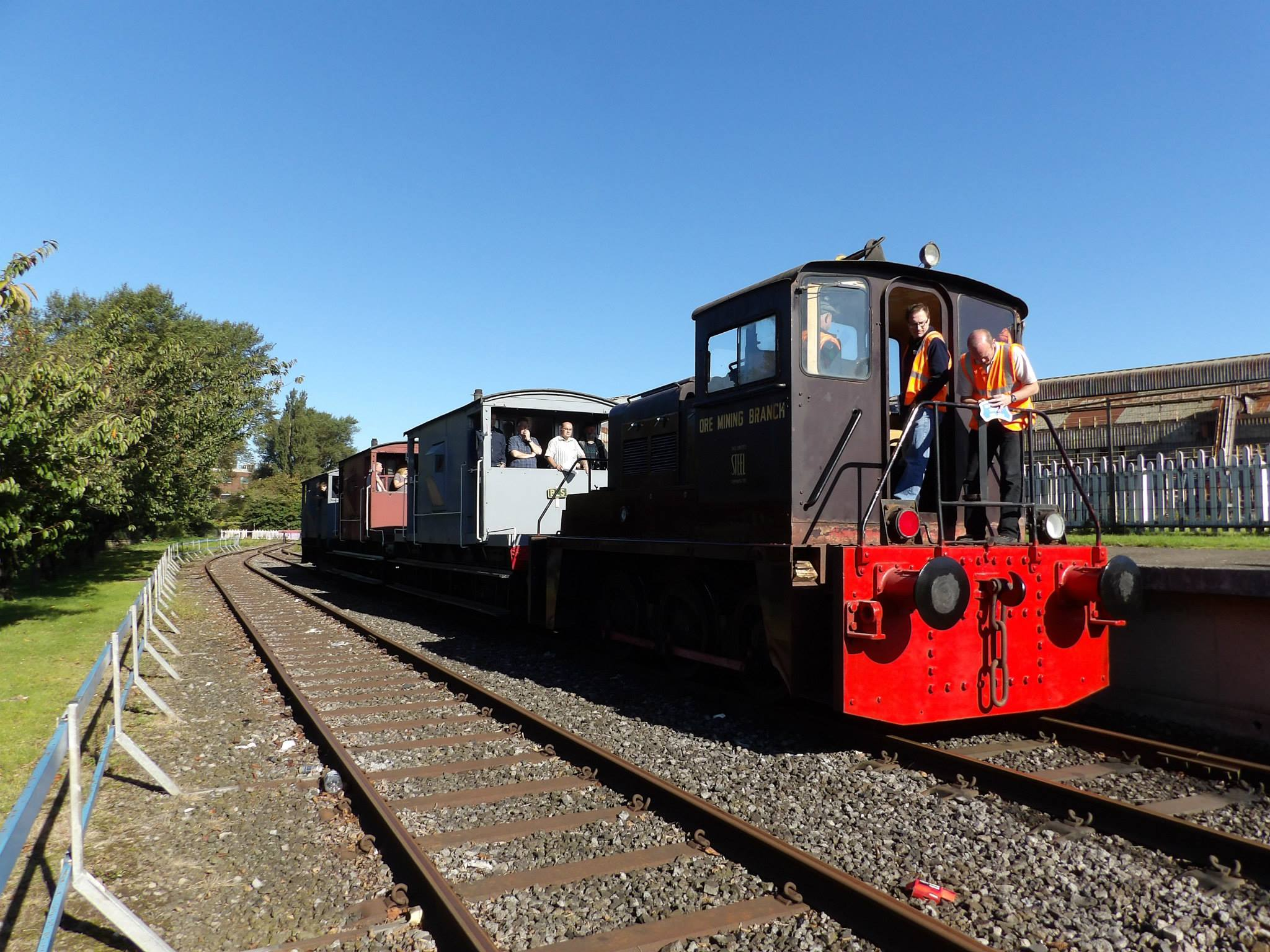 Yorkshire Engine Company Half Janus, works number '2872', Loco Number '1382' on a Appleby Frodingham Railway Preservation Society Scunthorpe Steelworks Tour